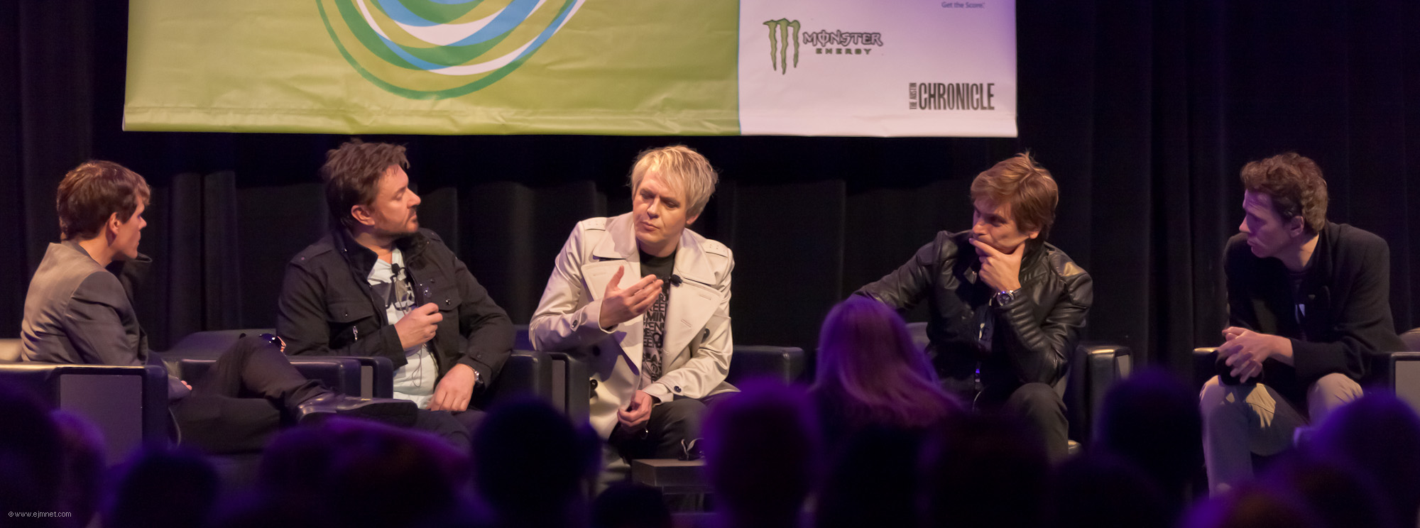 Duran Duran interview at the South by Southwest music festival Thursday morning, March17, 2011. They started their new world tour the previous night at Stubb's BBQ as part of SxSW. I [Earl McGehee] did not get to take pictures at the performance because I cannot yet be in two places at once - there are so many things going on at this event. Left-to-right: John Norris (MTV), Simon Le Bon, Nick Rhodes, Roger Taylor, John Taylor.